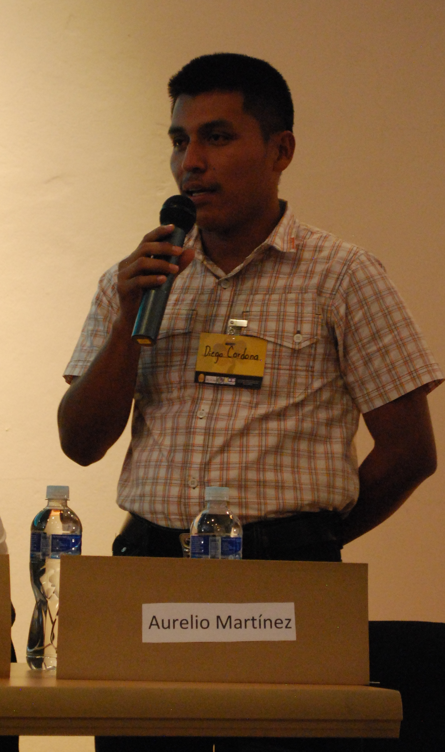 Diego Cardona representing the Tawahka people at a forum of the ACALing conference at the Universidad Nacional Autónoma de Honduras